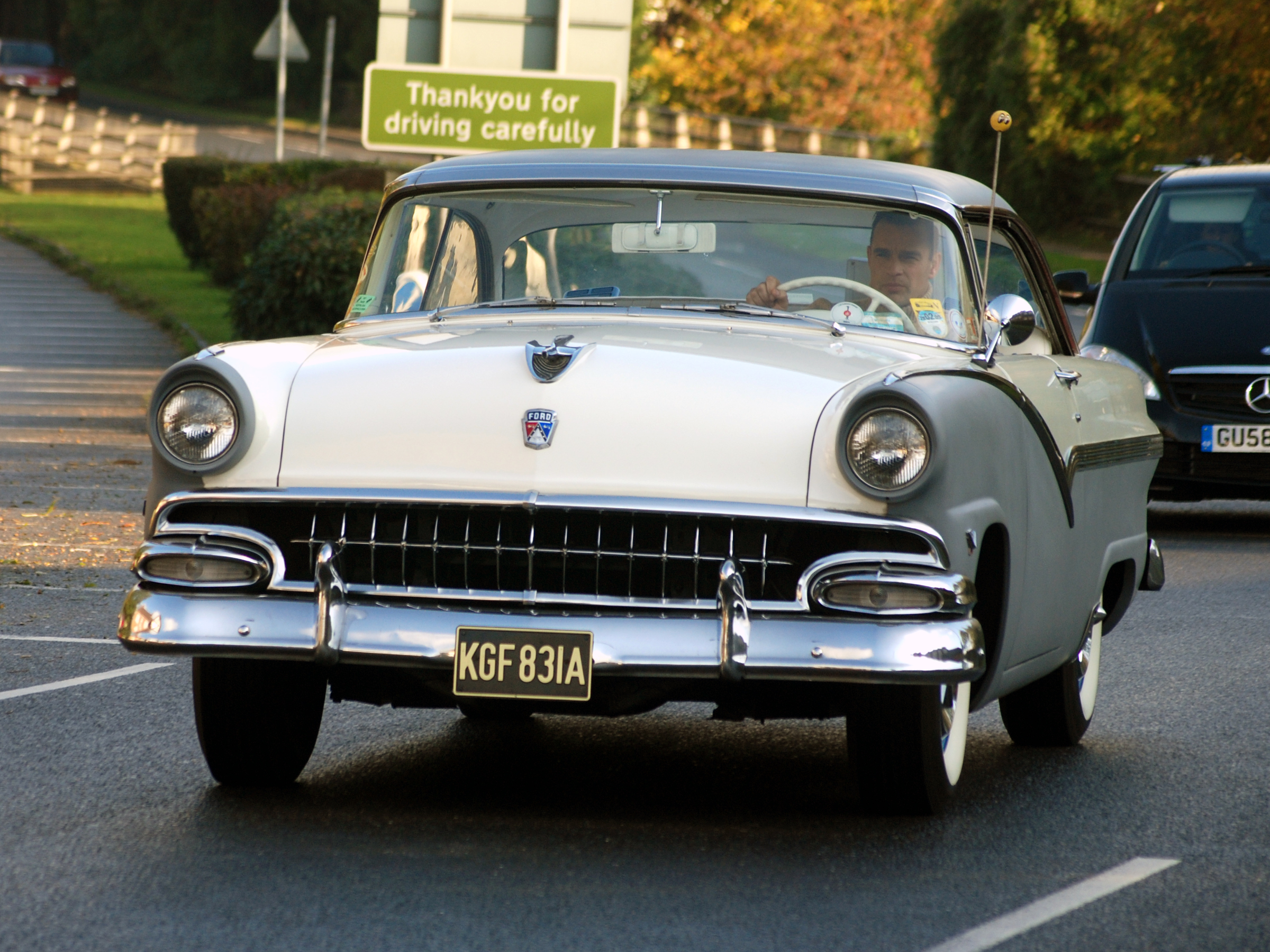 A23,Merstham,Nov 2008